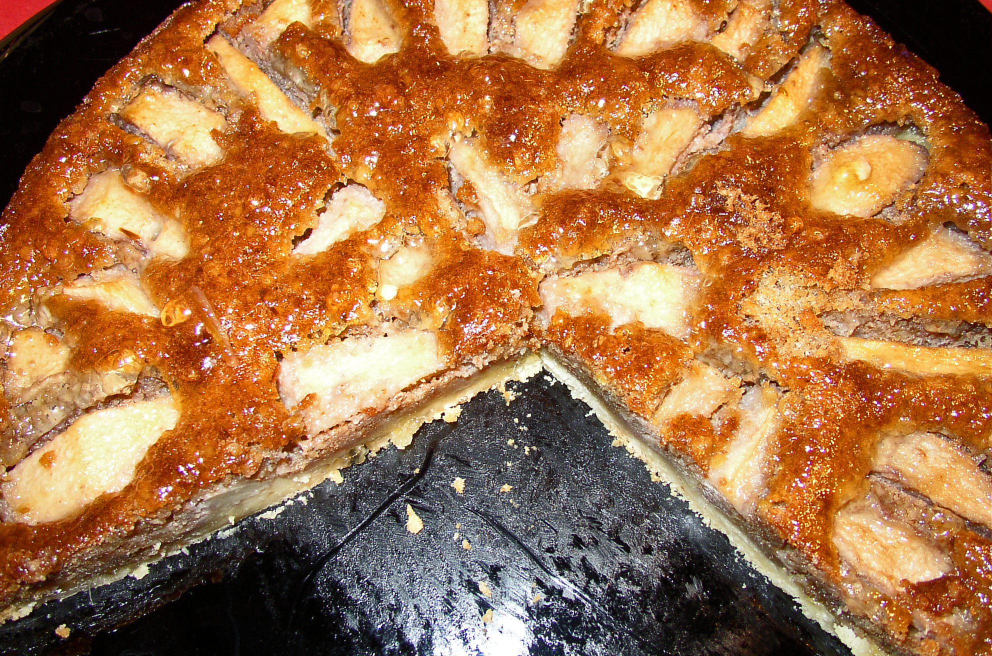 Pears and ginger cake - Our recipe (in German) you can find here